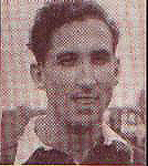 Gunnar Johansson from Göteborgs Posten when playing in GAIS 1949.